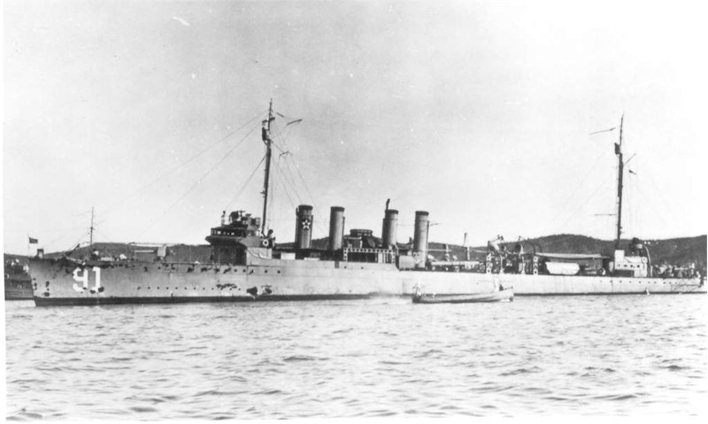 The U.S. Navy Wickes-class destroyer USS Harding (DD-91) as a seaplane tender at Guantanamo Bay, Cuba, circa 1920-21. The US National Insignia at the funnell carried by seaplane tenders.